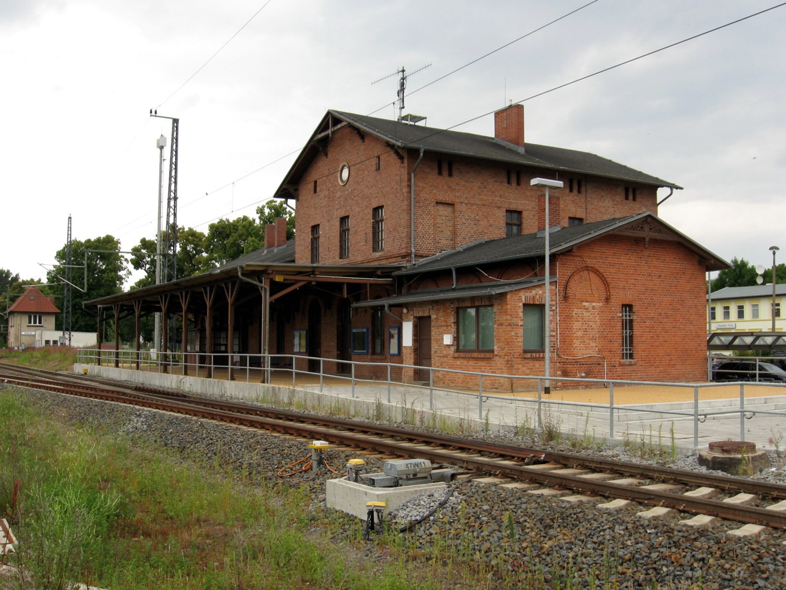 The Station Züssow in July 2008